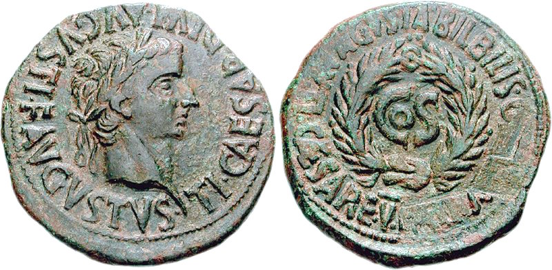 Tiberius. As. Bilbilis mint. L. Aelius Sejanus, praetorian consul. Struck AD 31. TI • CAESAR • DIVI • AVGVSTI • F • AVGVSTVS•, laureate head right / MV (ligate) • AV(ligate)GVSTA • BILBILIS • TI • CÆSARE • V [L ÆL]IO • [SEIAN]O, large COS within wreath. RPC I 398; NAH 1079-80; SNG Copenhagen 620. Important historical type with the name of Sejanus removed in damnatio memoriae.